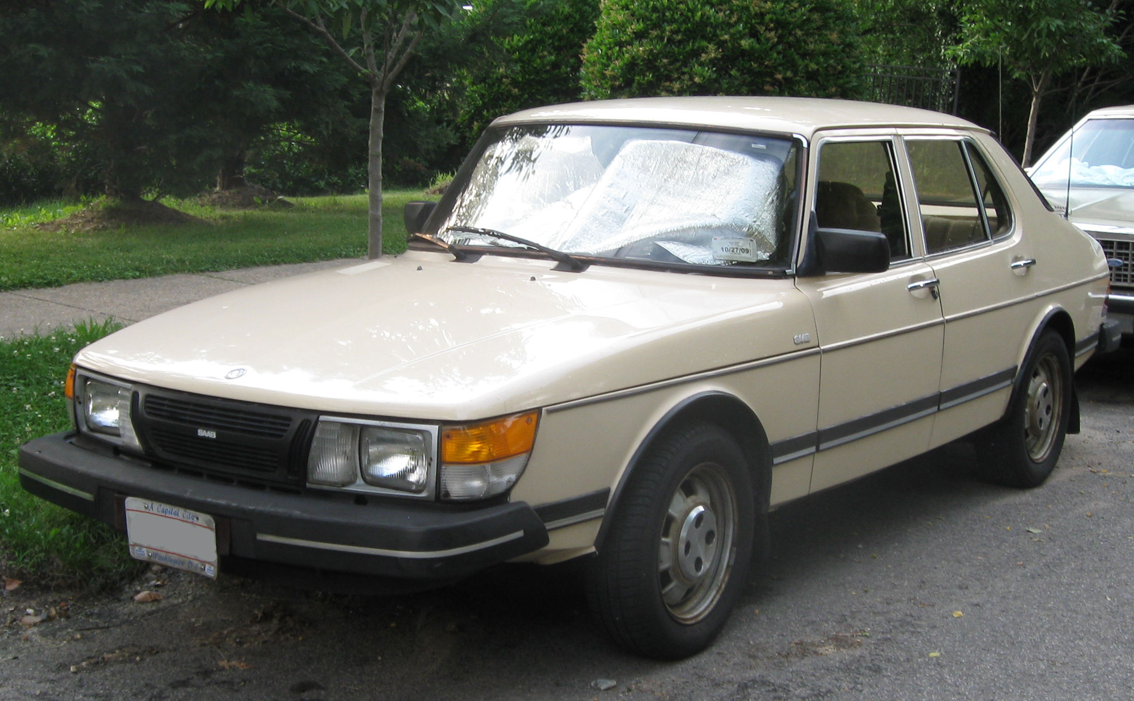 Saab 900 photographed in Washington, D.C., USA.